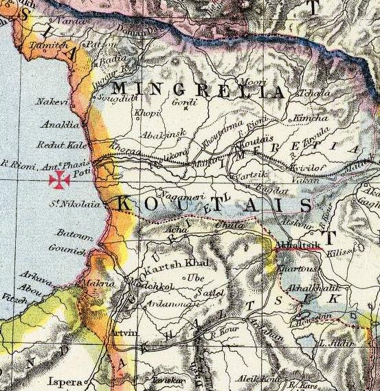 Russia. No. 9. Letts's popular atlas. Letts, Son & Co. Limited, London. (1883)